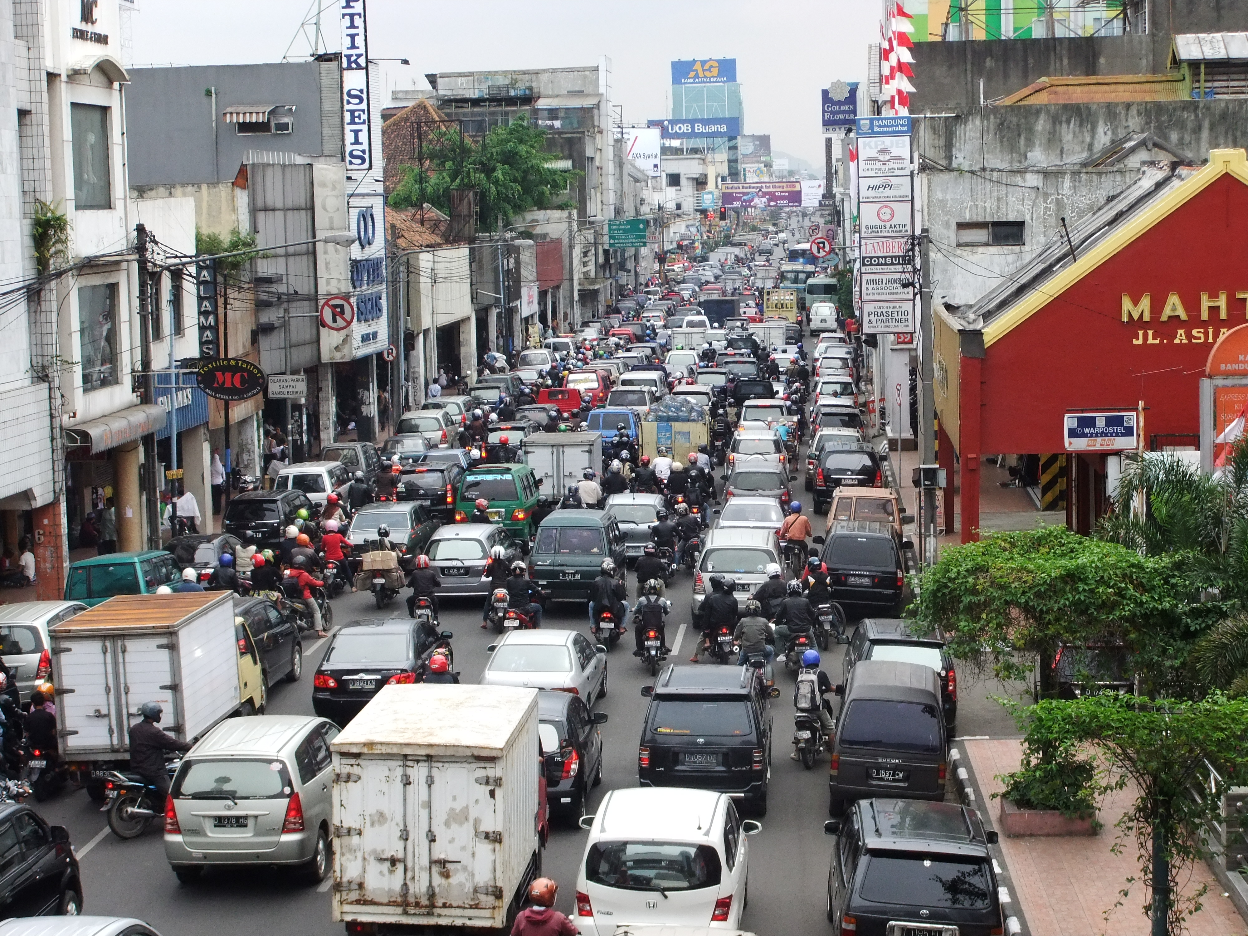 Traffic congestion in Jl. Asia Afrika in central Bandung, West Java, Indonesia